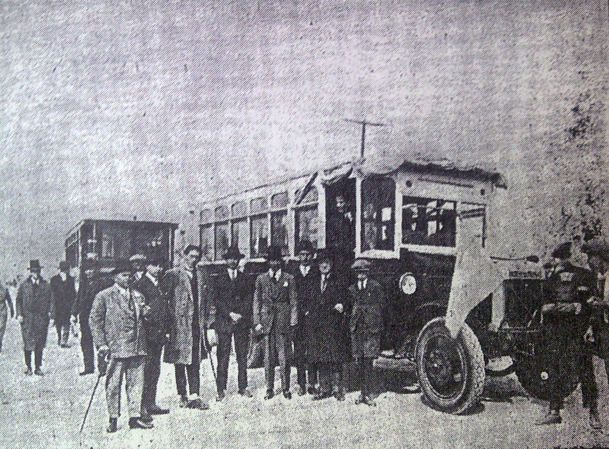 Inauguration of the line 3 buses in Cordoba, Argentina.